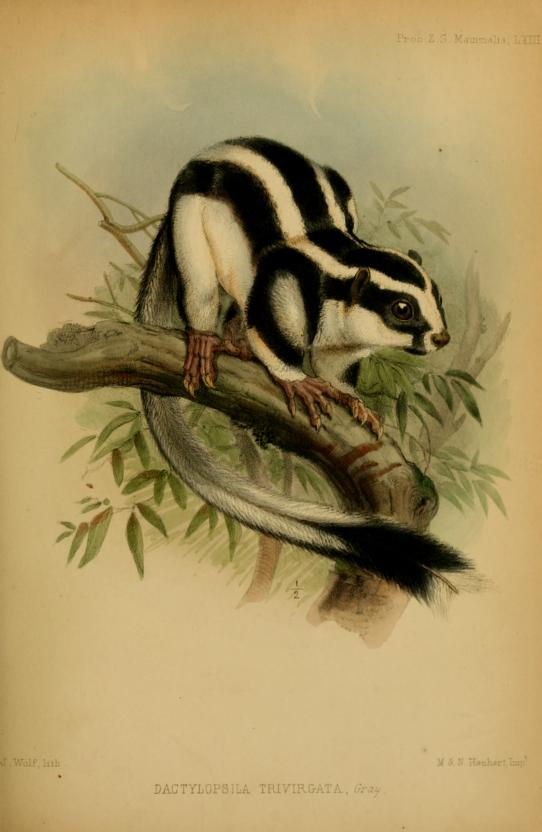 Striped Possum, illustrated by Joseph Wolf, plate LXIII in "List of species of Mammalia sent from the Aru Islands by Mr A.R. Wallace to the British Museum" by John Edward Gray in Proceedings of the Zoological Society (1858).